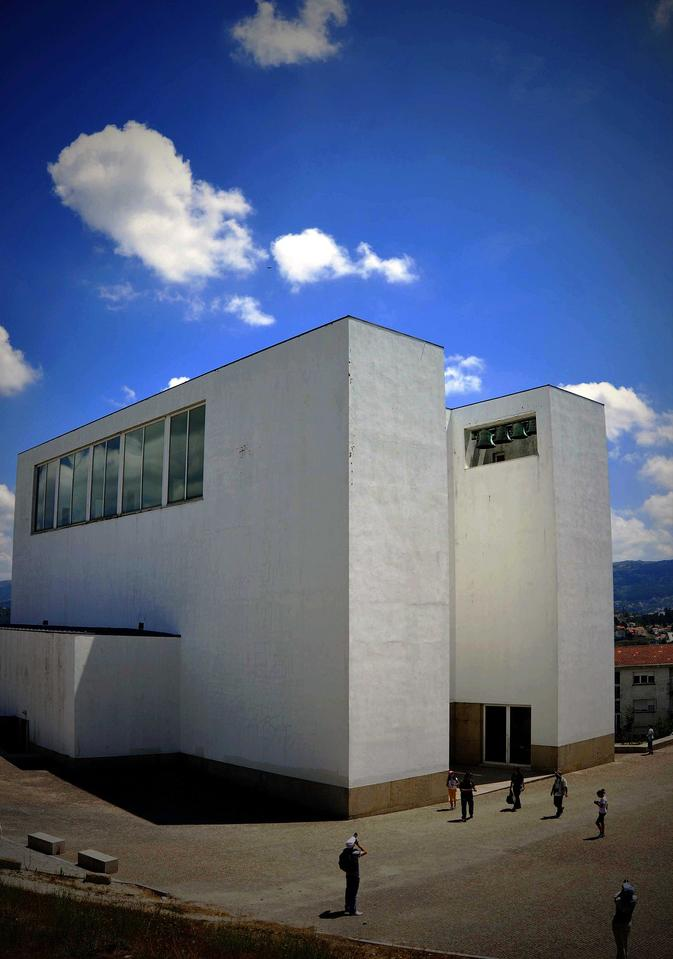 Sanit Mary Church, Marco de Canaveses, Portugal